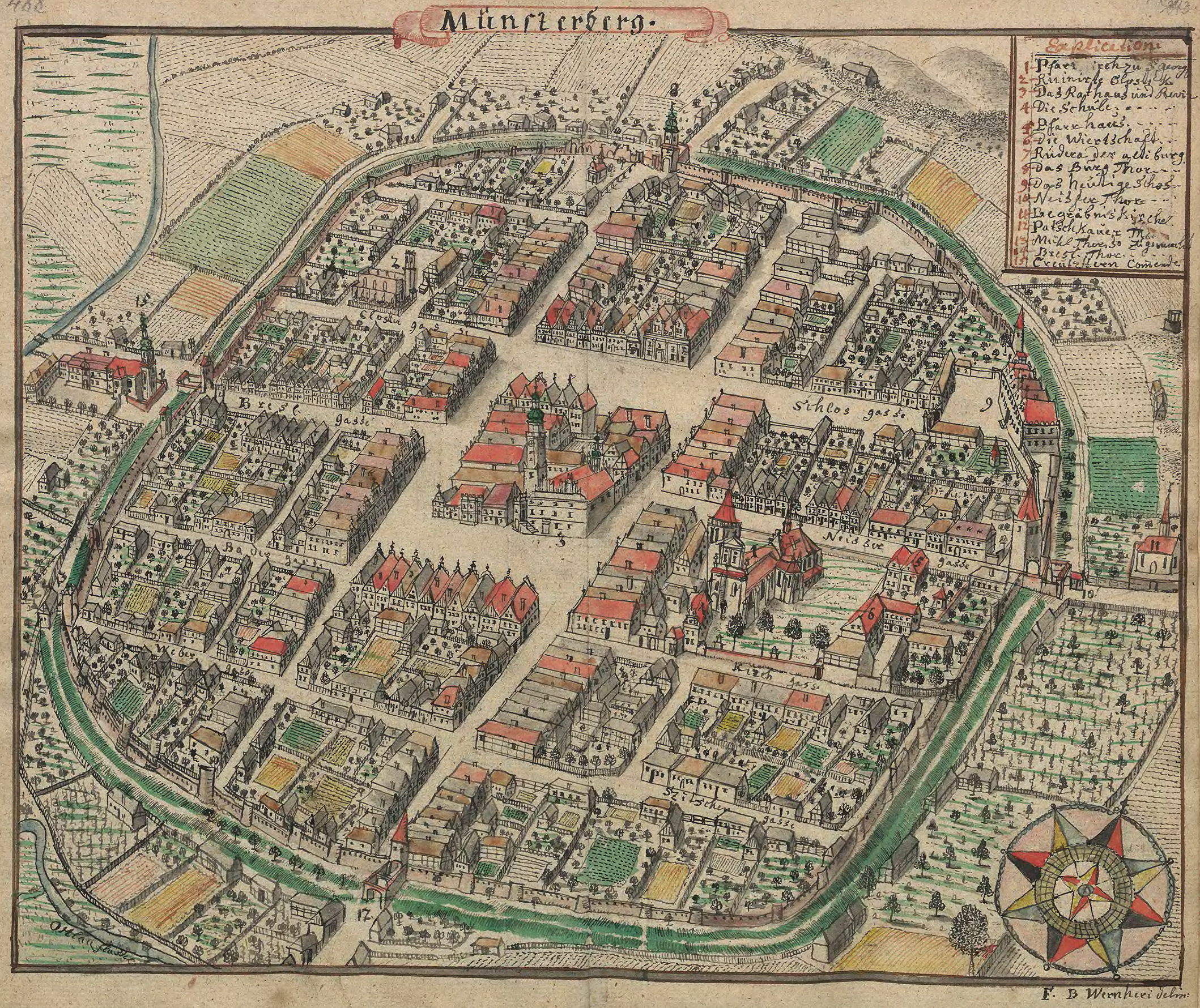 Town of Münsterberg (Ziębice) around 1750, by Friedrich Bernhard Werner